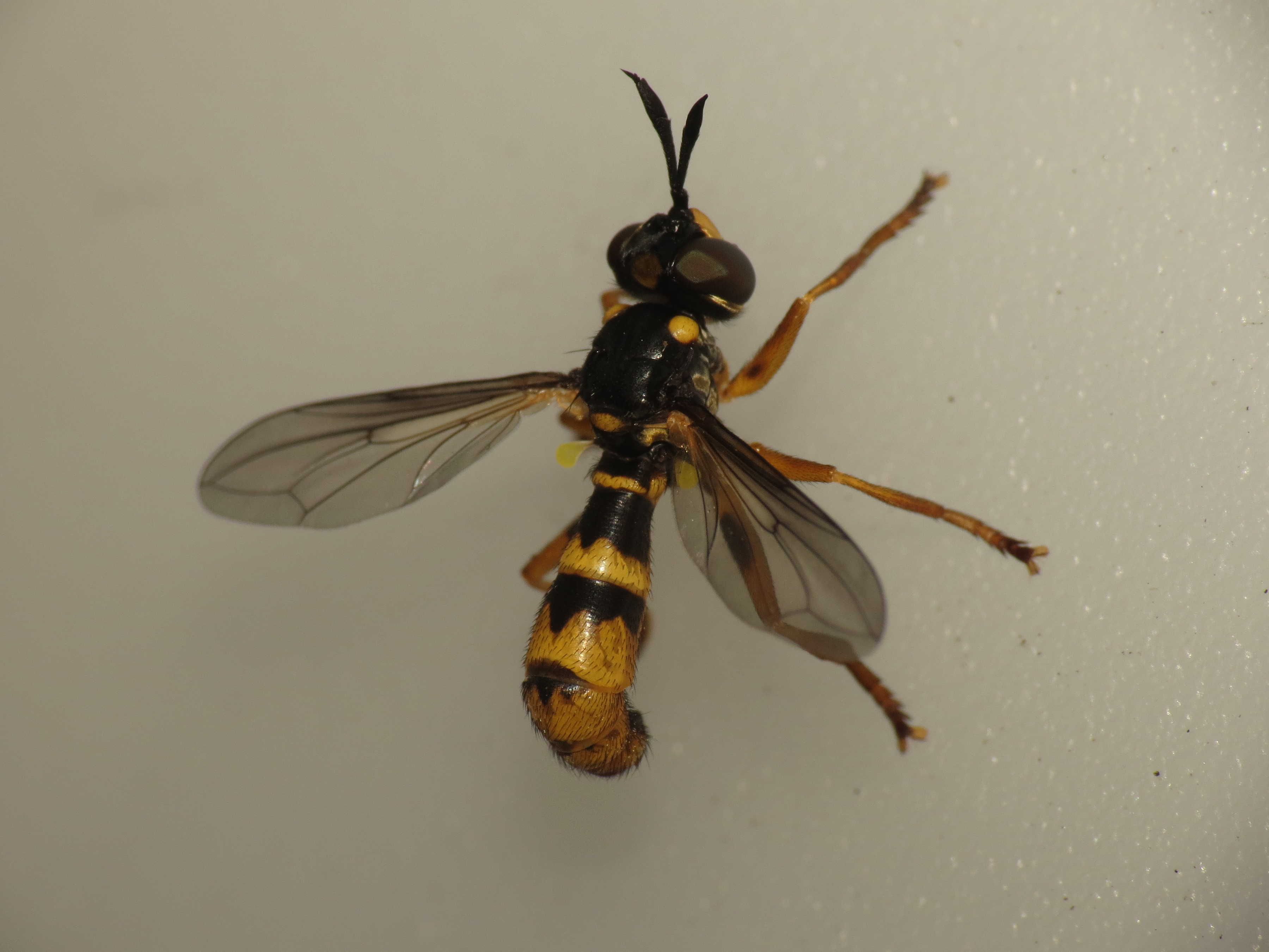 Leopoldius signatus (Wiedemann in Meigen, 1824), to Robinson trap, Søborg, Denmark, 30/31 July 2013